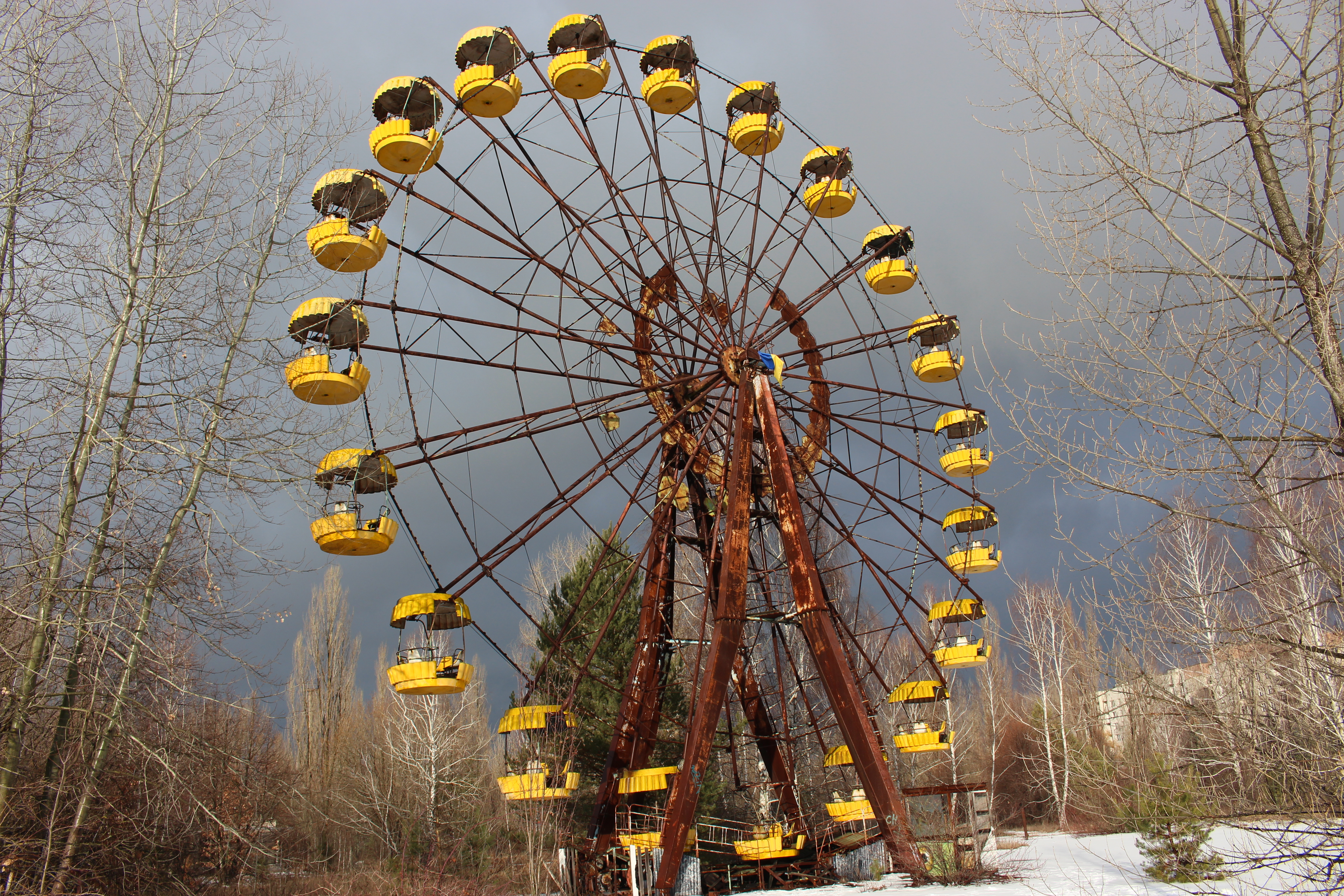 Chernobyl Exclusion Zone.